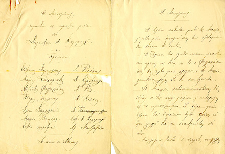 Dimitrios Koromilas manuscript